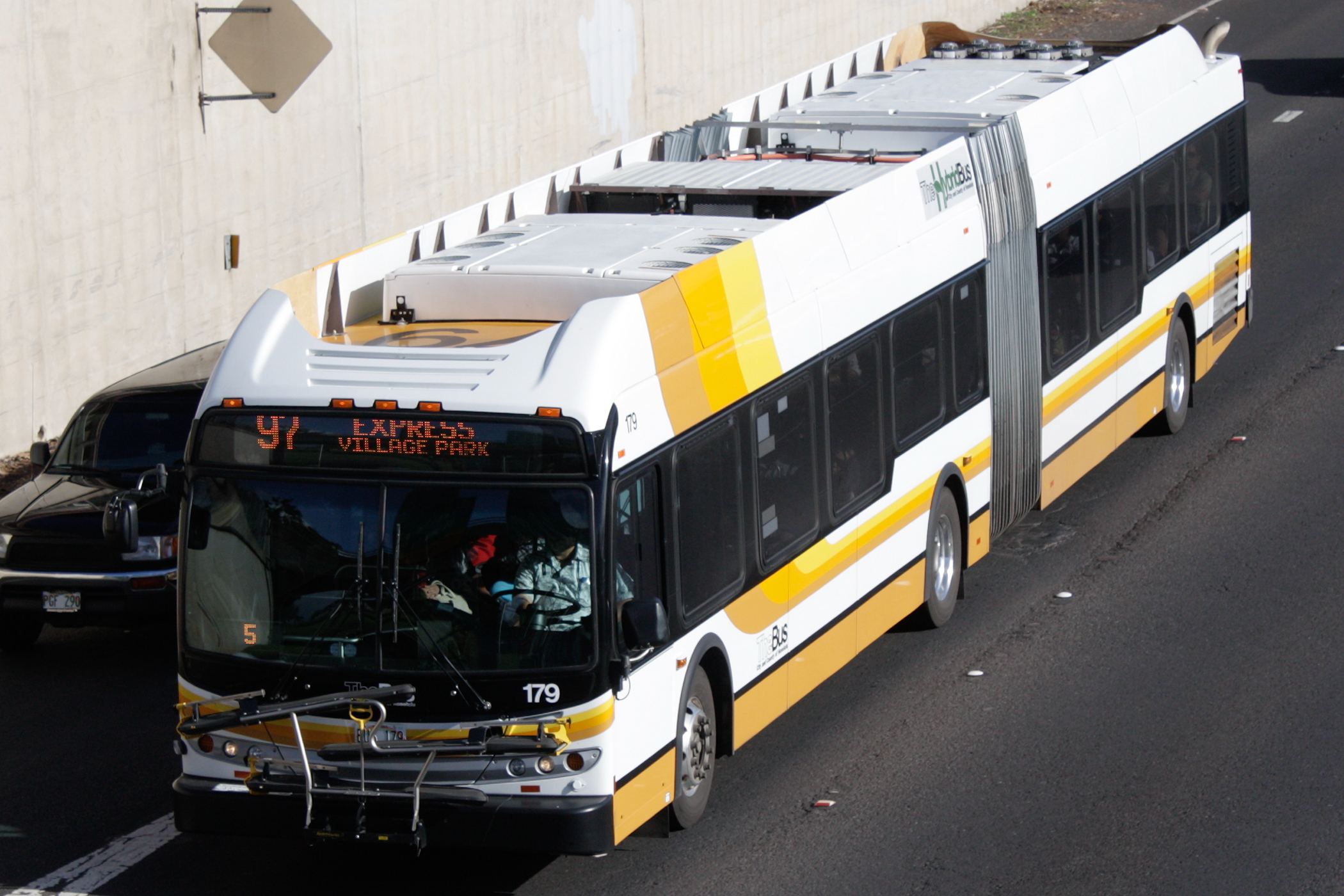 A TheBus New Flyer DE60LF bus on the H-1 freeway during the afternoon rush hour, near the Kalihi Street overpass in Honolulu, Hawaii.